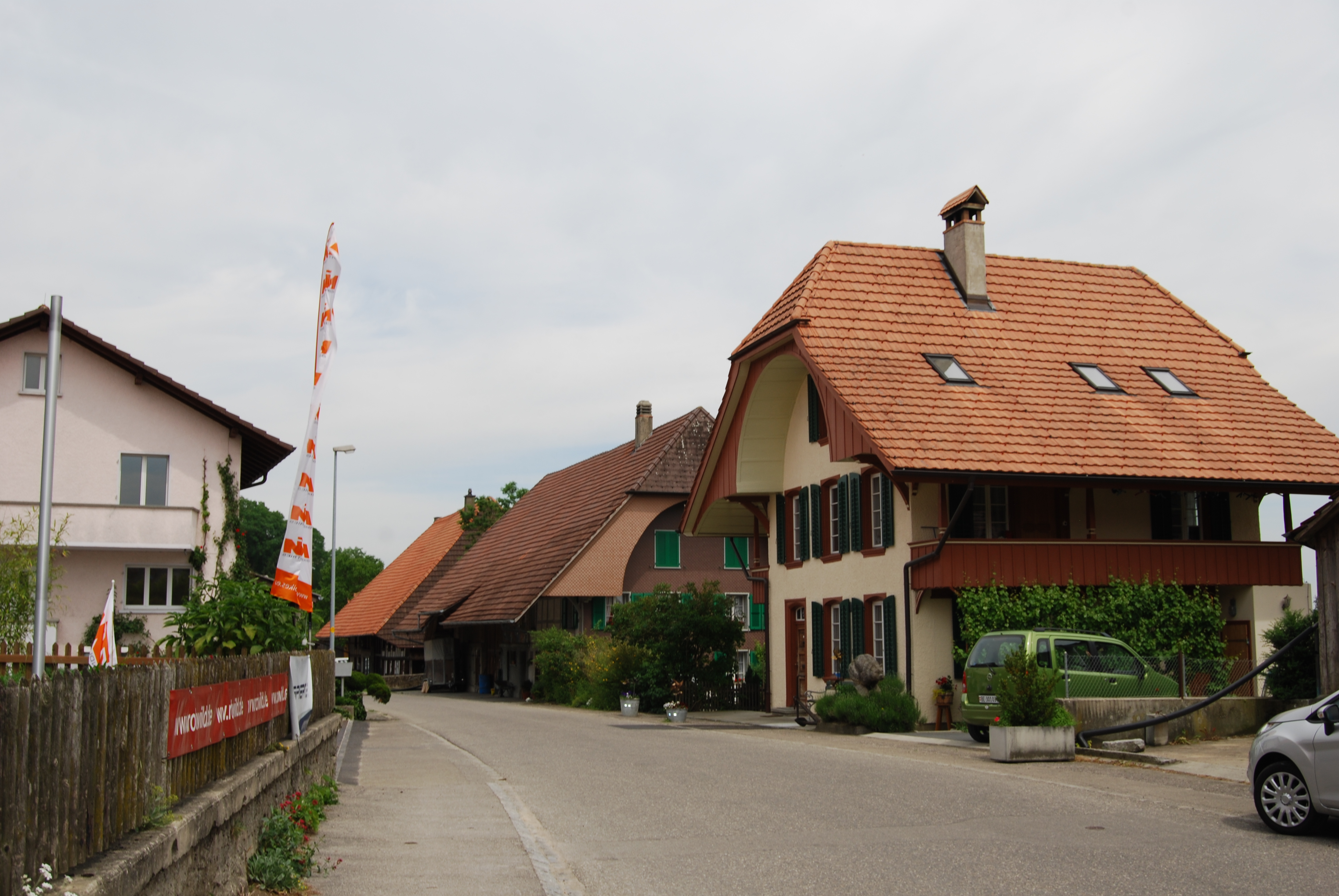 Bühl, canton of Bern, SwitzerlandEsperanto: Bühl, Kantono Berno, Svislando